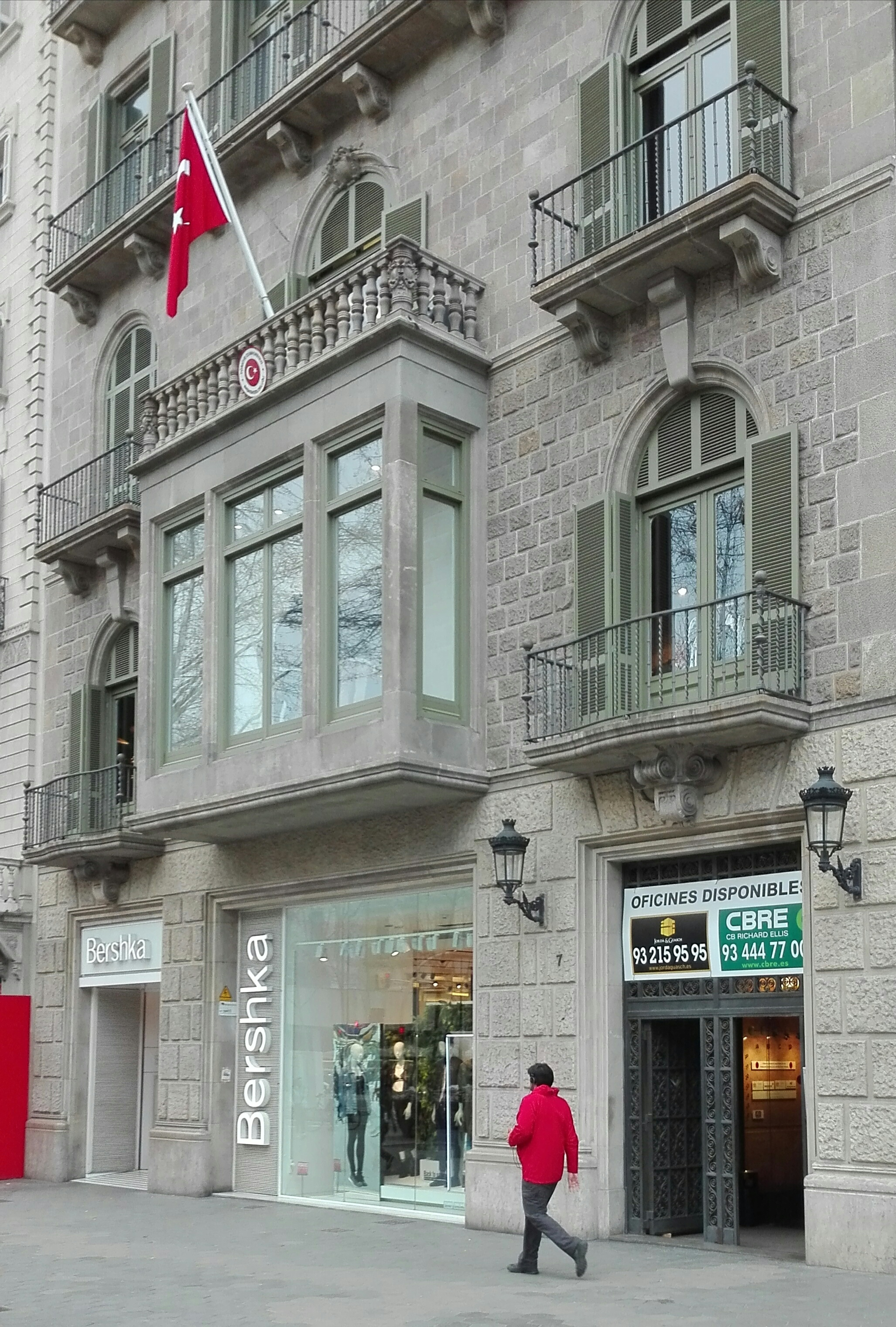 Building of theconsulate of Turkey in Barcelona, located in passeig de Gràcia, 7, of Eixample's district.